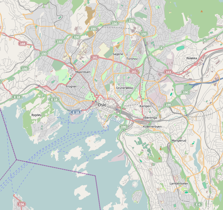 Map of Oslo Geographic limits of the map: N: 59.9632° S: 59.8631° W: 10.6424° E: 10.8539°